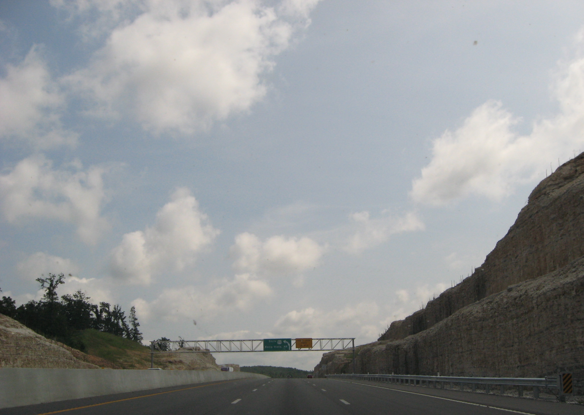 US 71 south in Missouri.